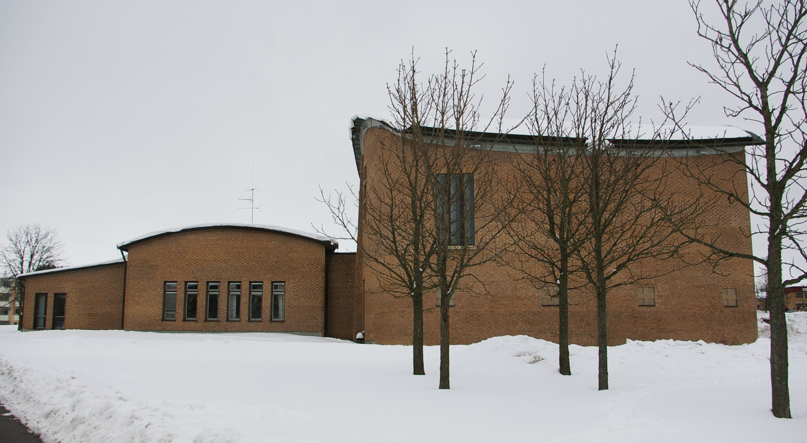 Berga church, Linköping, Sweden.